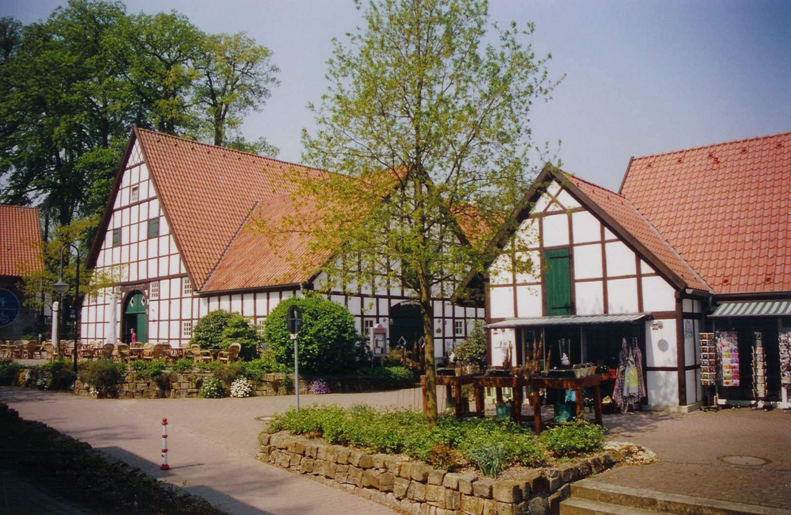 Schultenhof in Mettingen, Kreis Steinfurt, North Rhine-Westphalia, Germany.